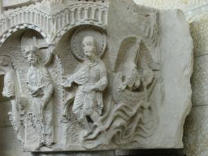 A detail from the Crusaders' church of Annunciation; "Jesus walks on the sea" (Nazareth, Isarel, 11-12th cent.); Detalj kapitela iz križarske crkve Navještenja; "Isus hoda po moru" (Nazaret, 11.-12. st.).